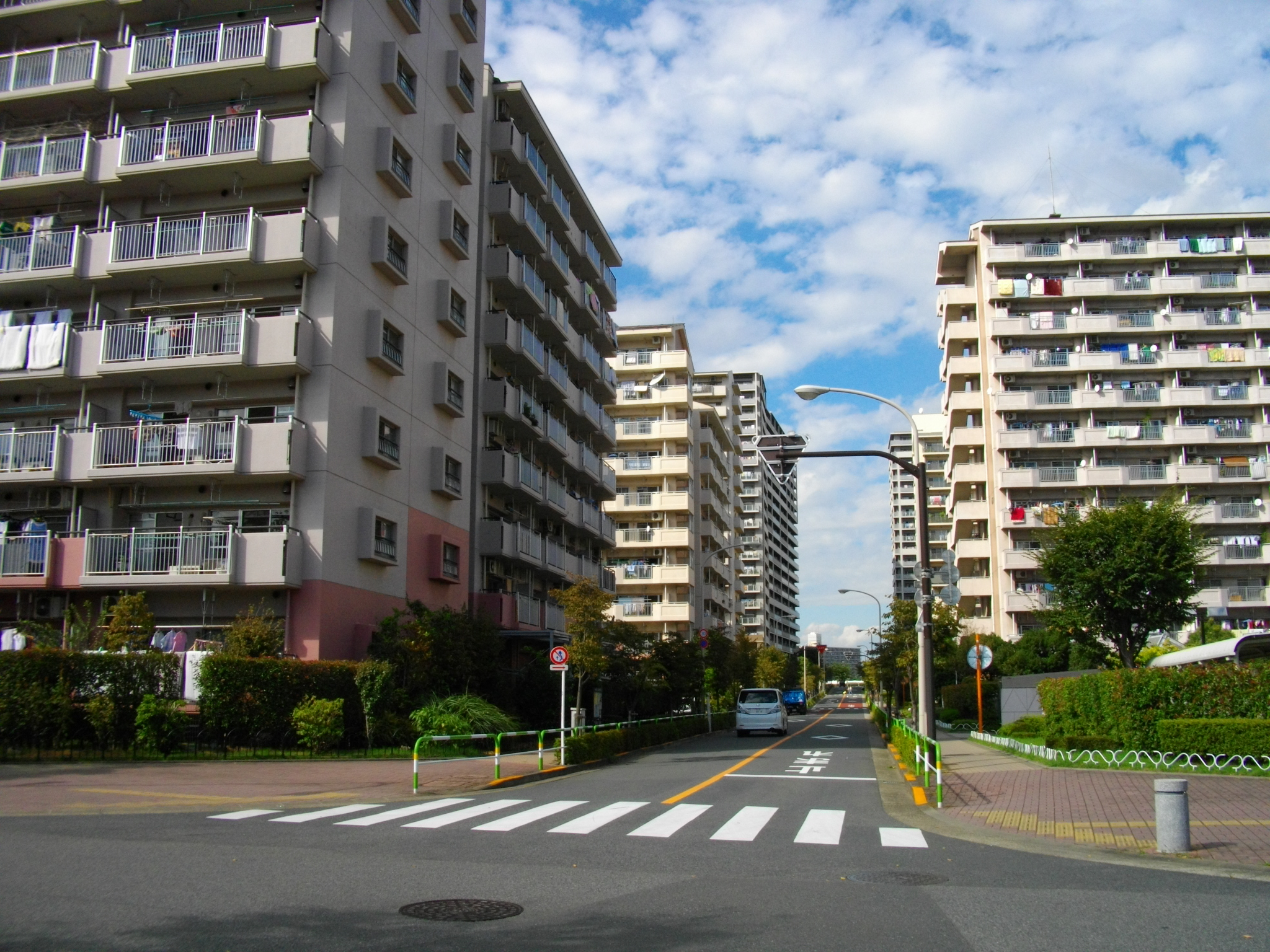 Minami-Senju 8-Chome